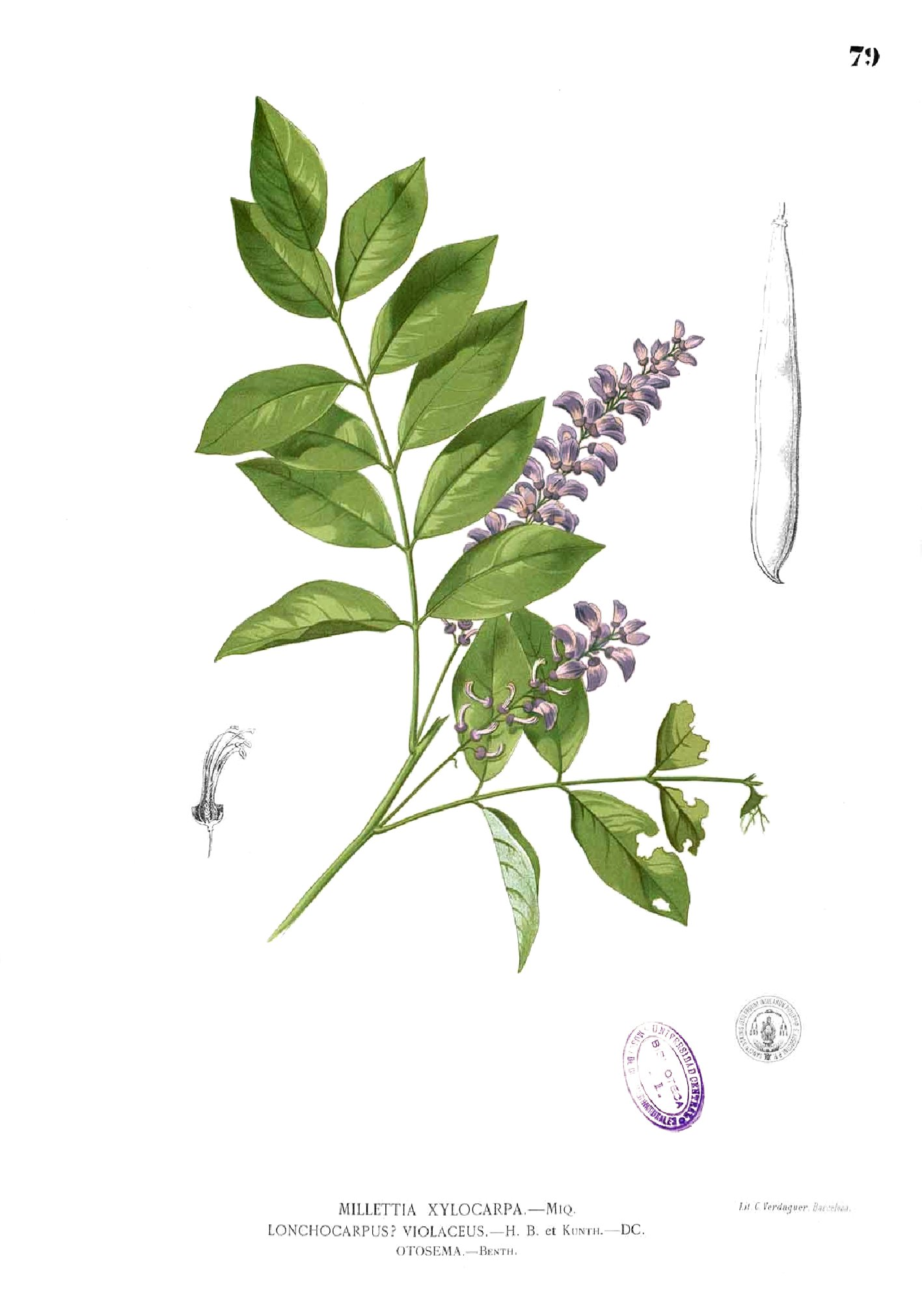 Plate from book